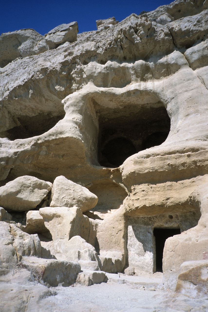 desciption: Matala, northern steep coast at the bay of Matala, Caves source: photo taken by myself photographer: Apeto date: 2000 miscellaneous: ...